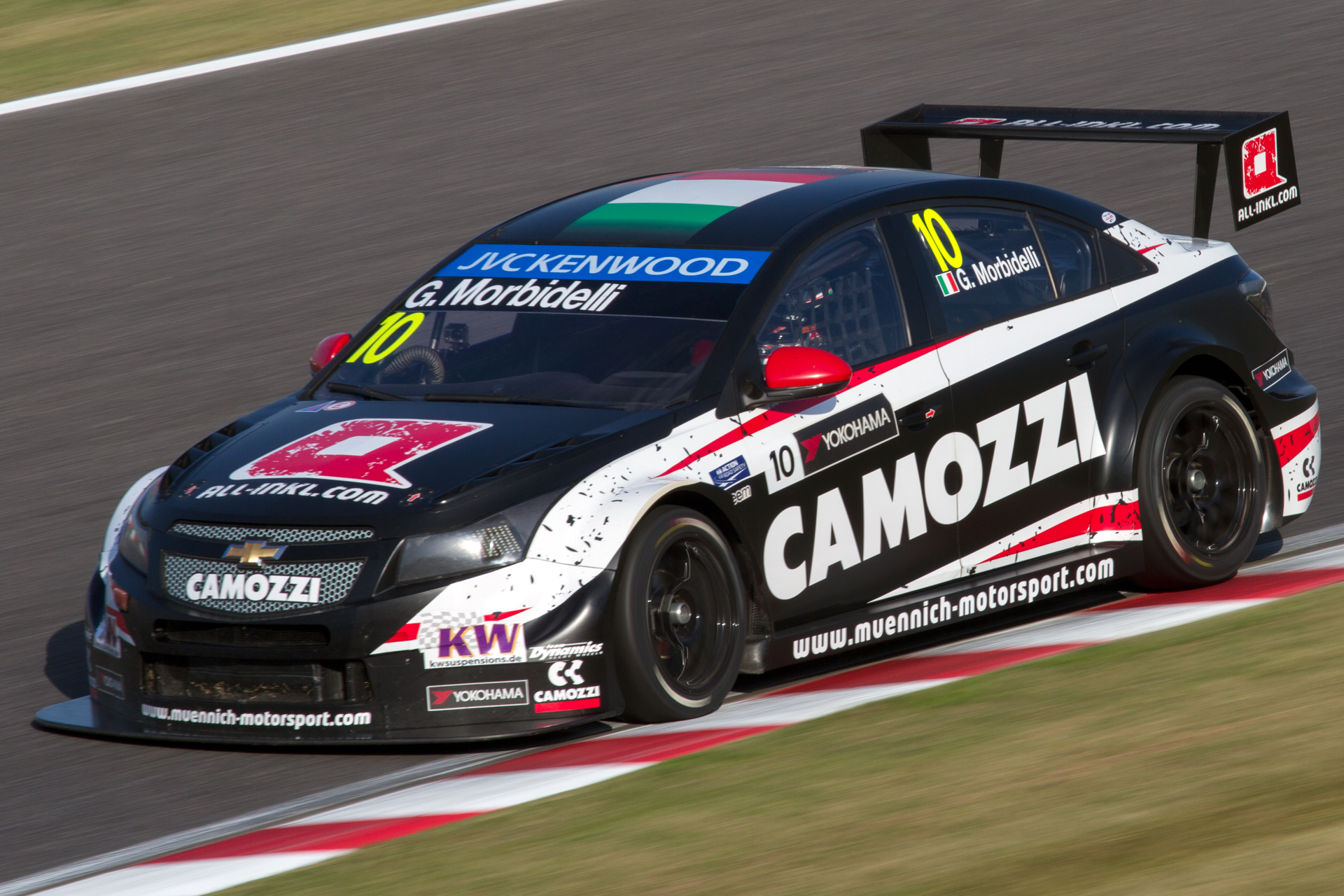 World Touring Car Championship 2014 Race of Japan: Gianni Morbidelli (Münnich Motorsport)